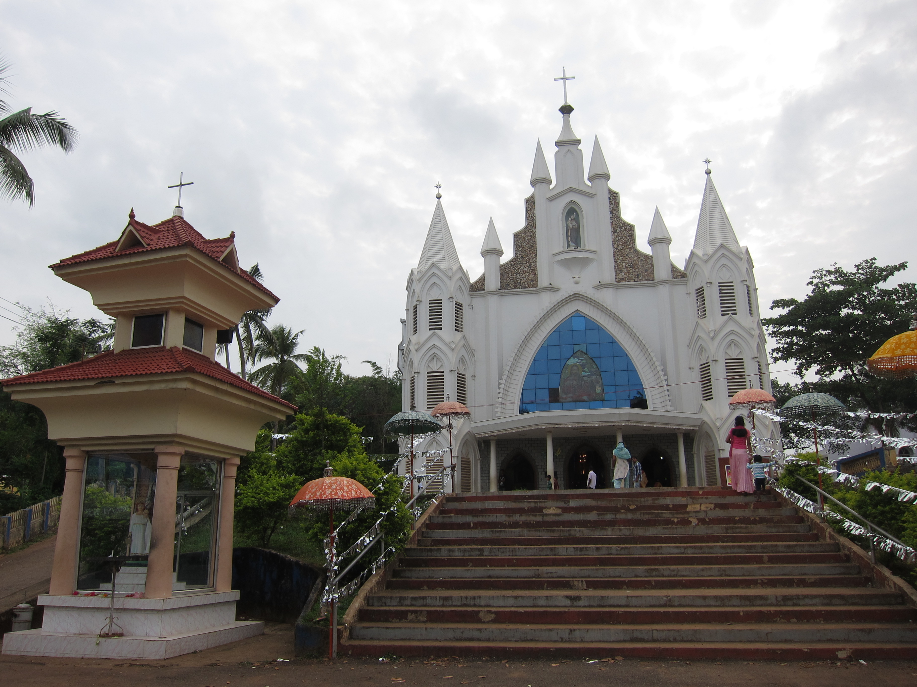 Pazhookkara, St. Joseph's Church, Irinjalakuda Diocese, Thrissur District, പഴൂക്കര സെന്റ് ജോസഫ്സ് ചർച്ച്, ഇരിങ്ങാലക്കുട രൂപത, തൃശ്ശൂർ ജില്ല